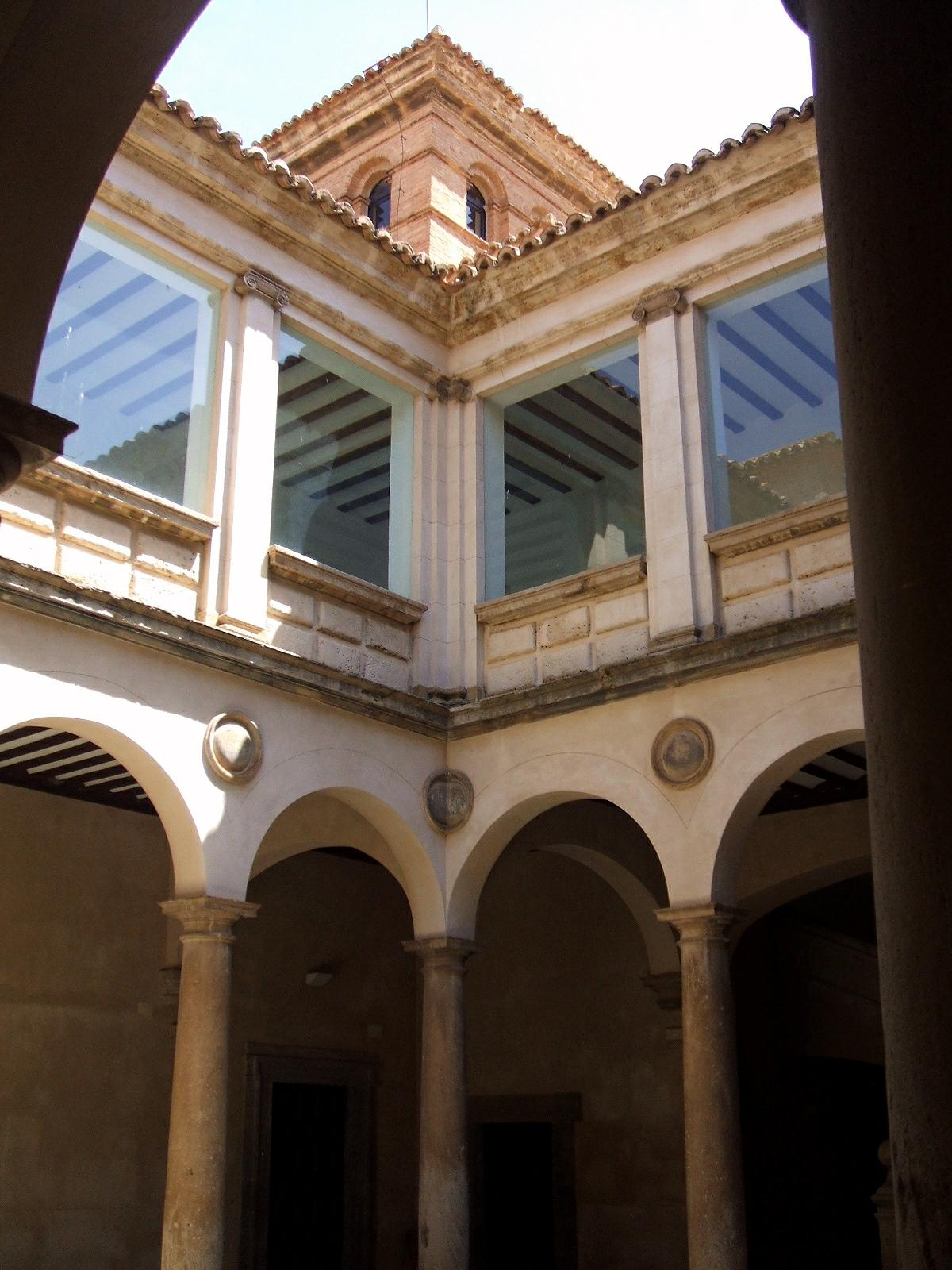 Patio renacentista del Palacio de los Castejones, en Ágreda (Soria, Castilla y León, España)